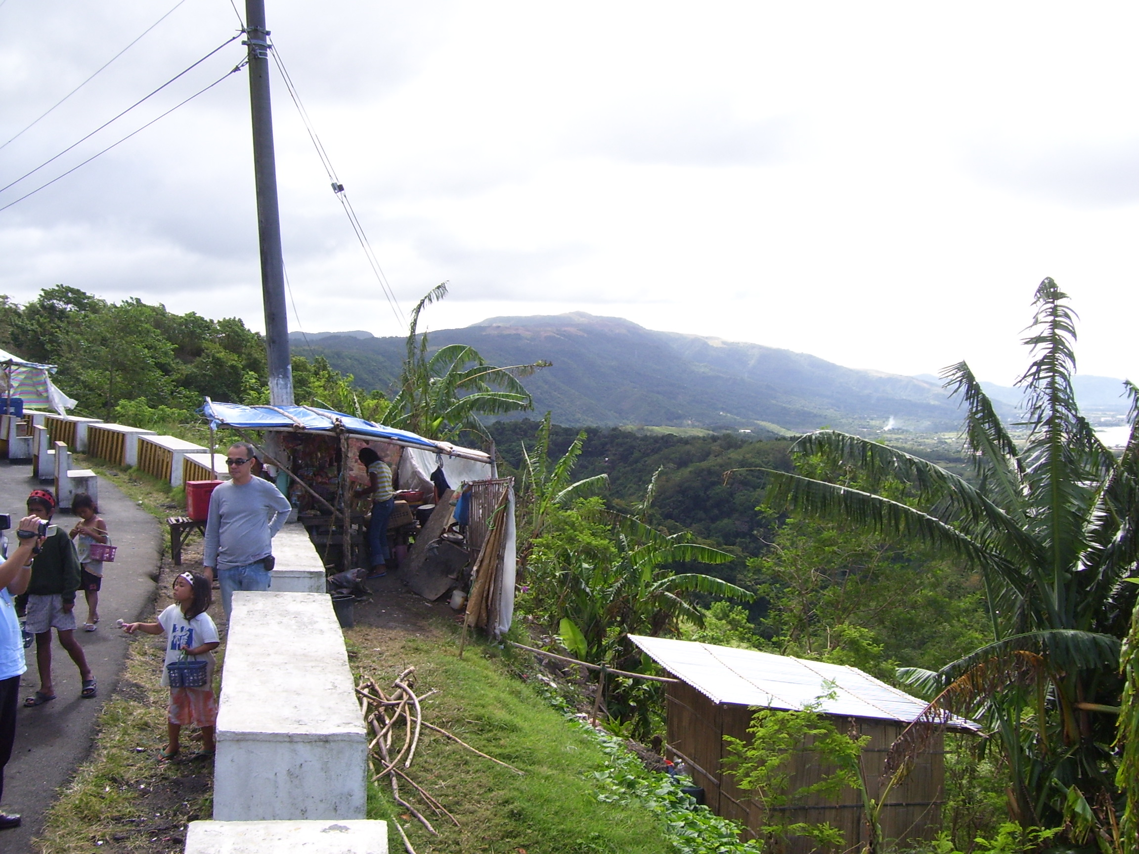 Laguna Caldera looking southeast